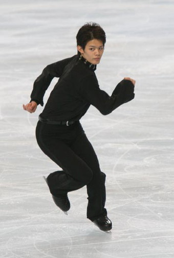 Takahiko Kozuka during his short program at the 2008 Trophée Eric Bompard.